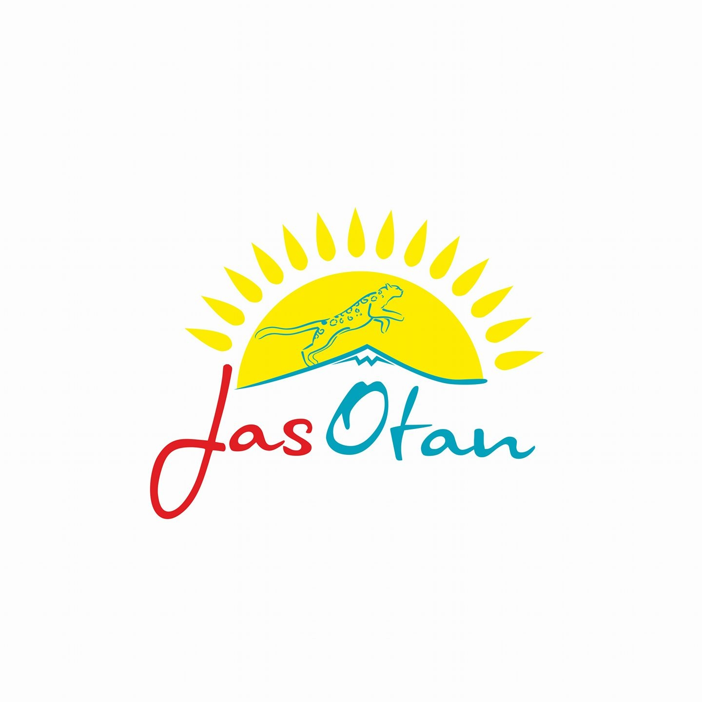 New logo of "Zhas Otan" youth organization